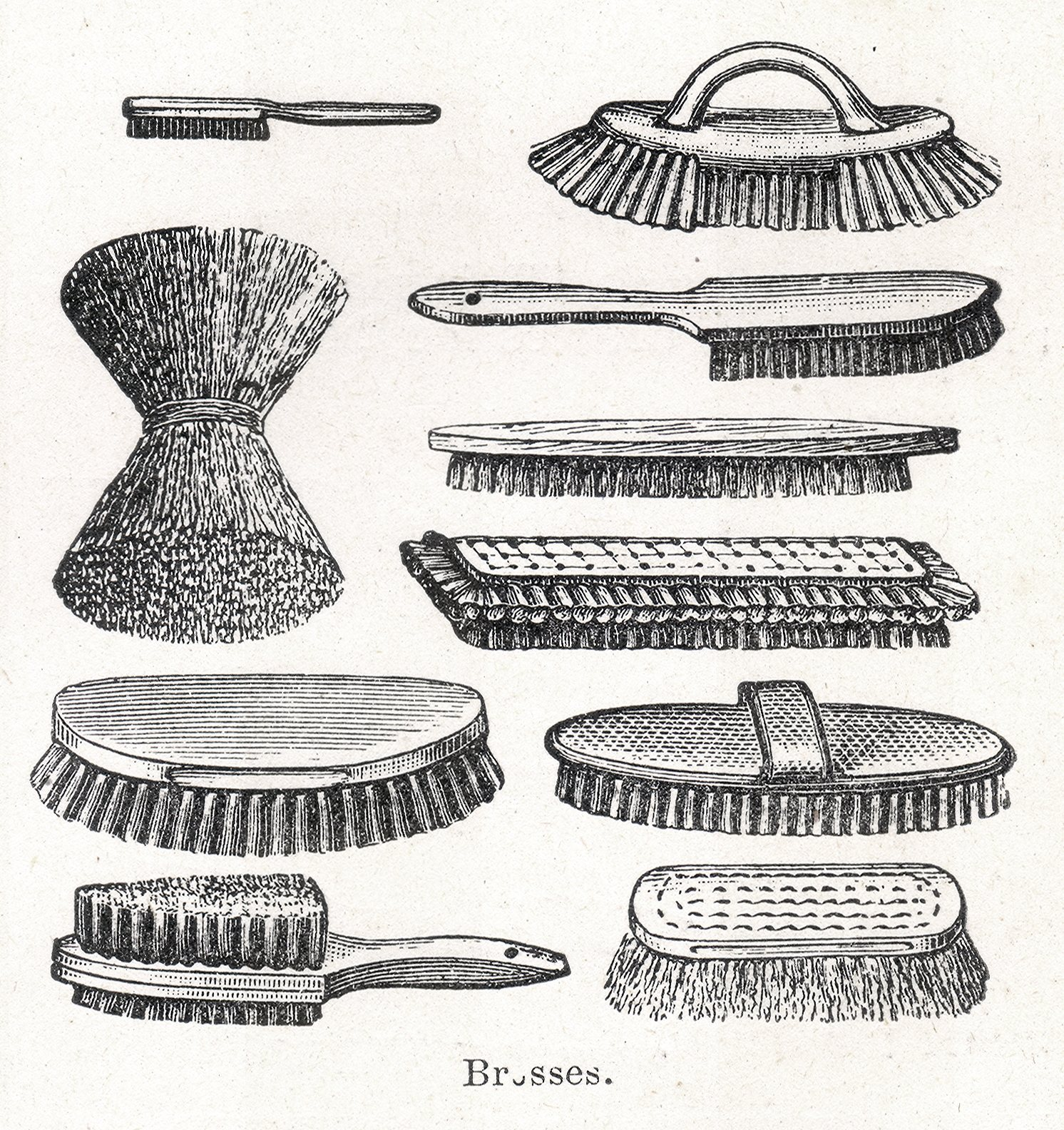 Brushes